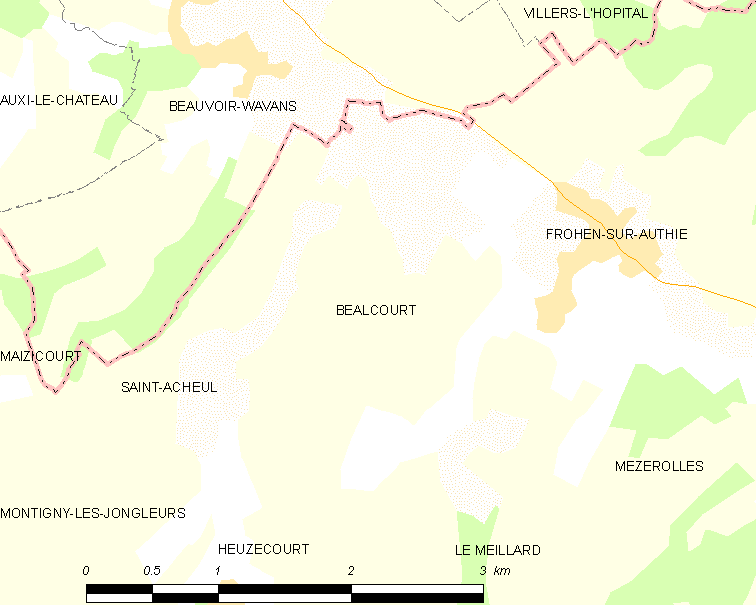 Map of French municipality Béalcourt